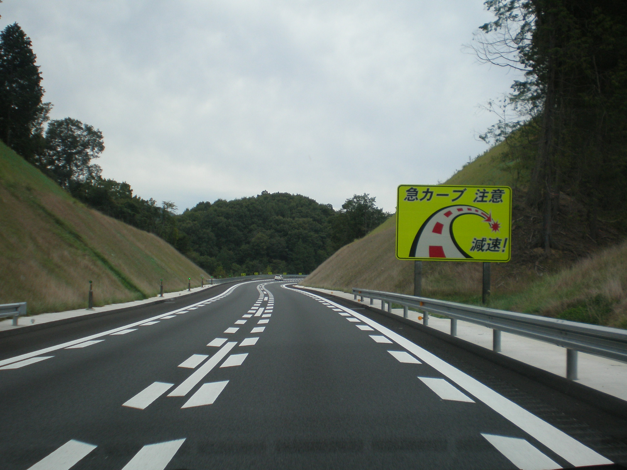 (tentative name)The vicinity of Otsu Junction construction schedule ground